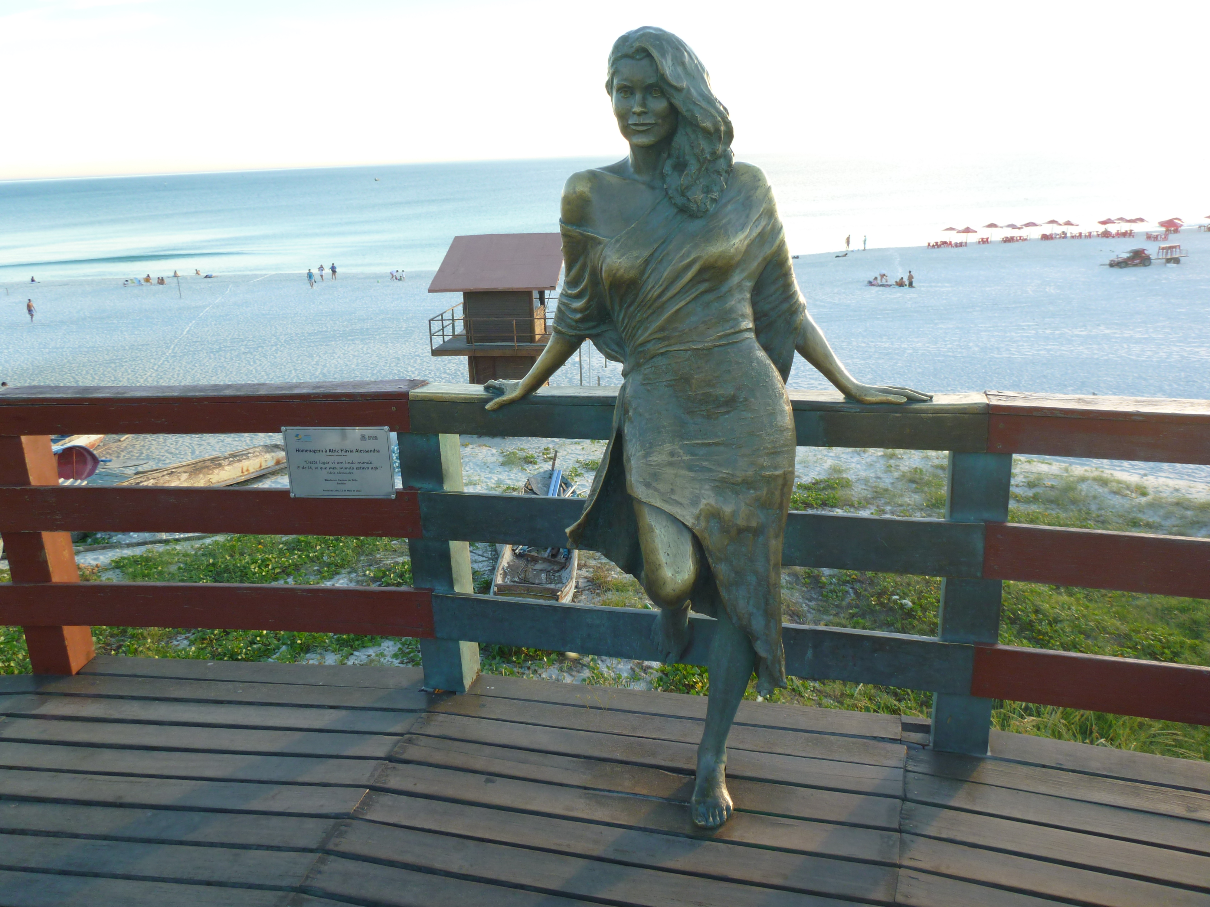 Monument at the beach of Arraial do Cabo for the actor Flávia Alessandra